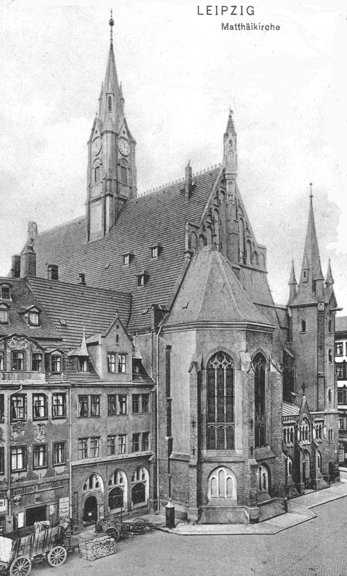 Historic post card from Matthäichurch in Leipzig, Saxony, Germany